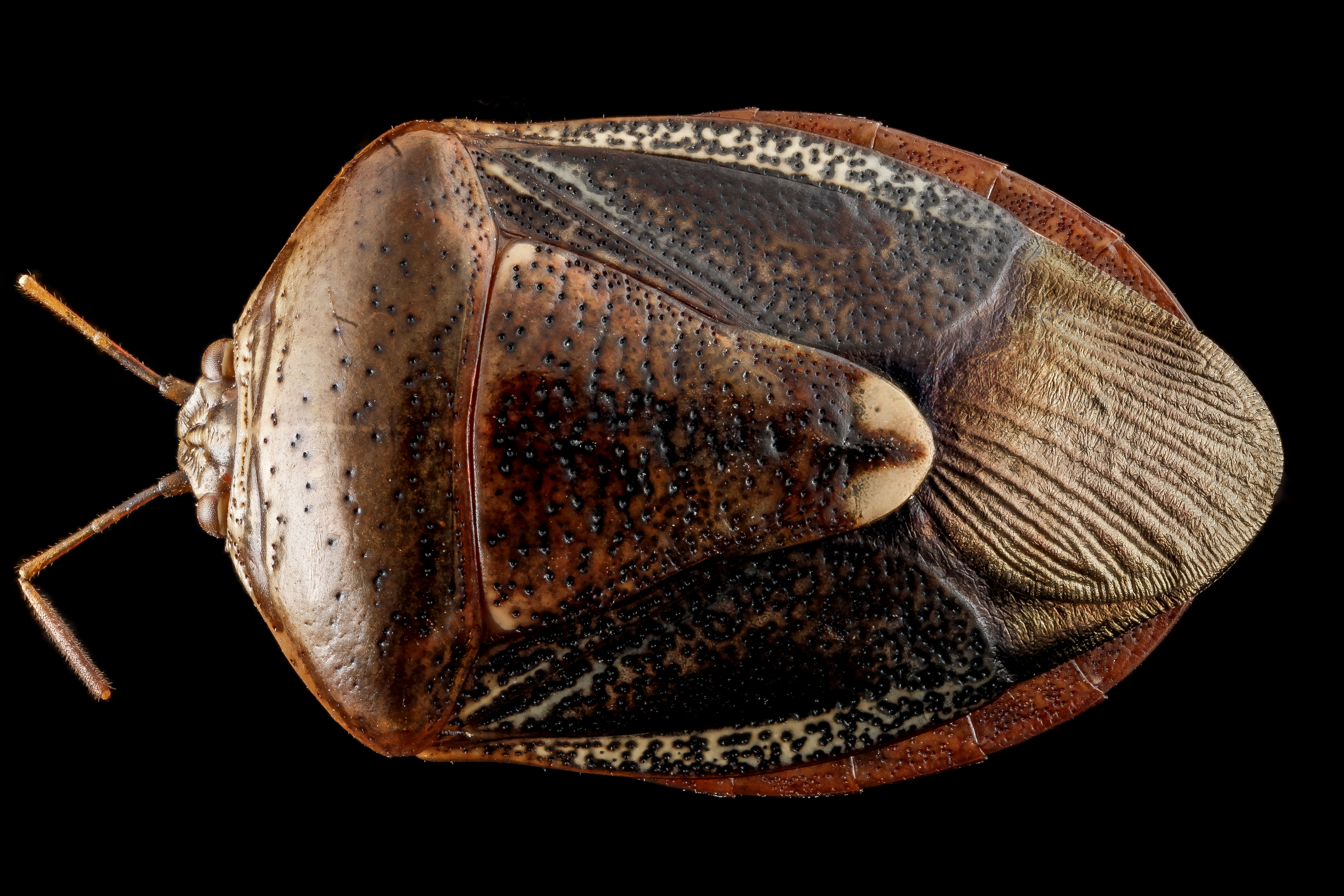 A lovely stinkbug found in my house trying to pretend it was a Brown Marmorated Stinkbug, but instead it is a primarily southern species native to the region. Stinkbugs are so cool.